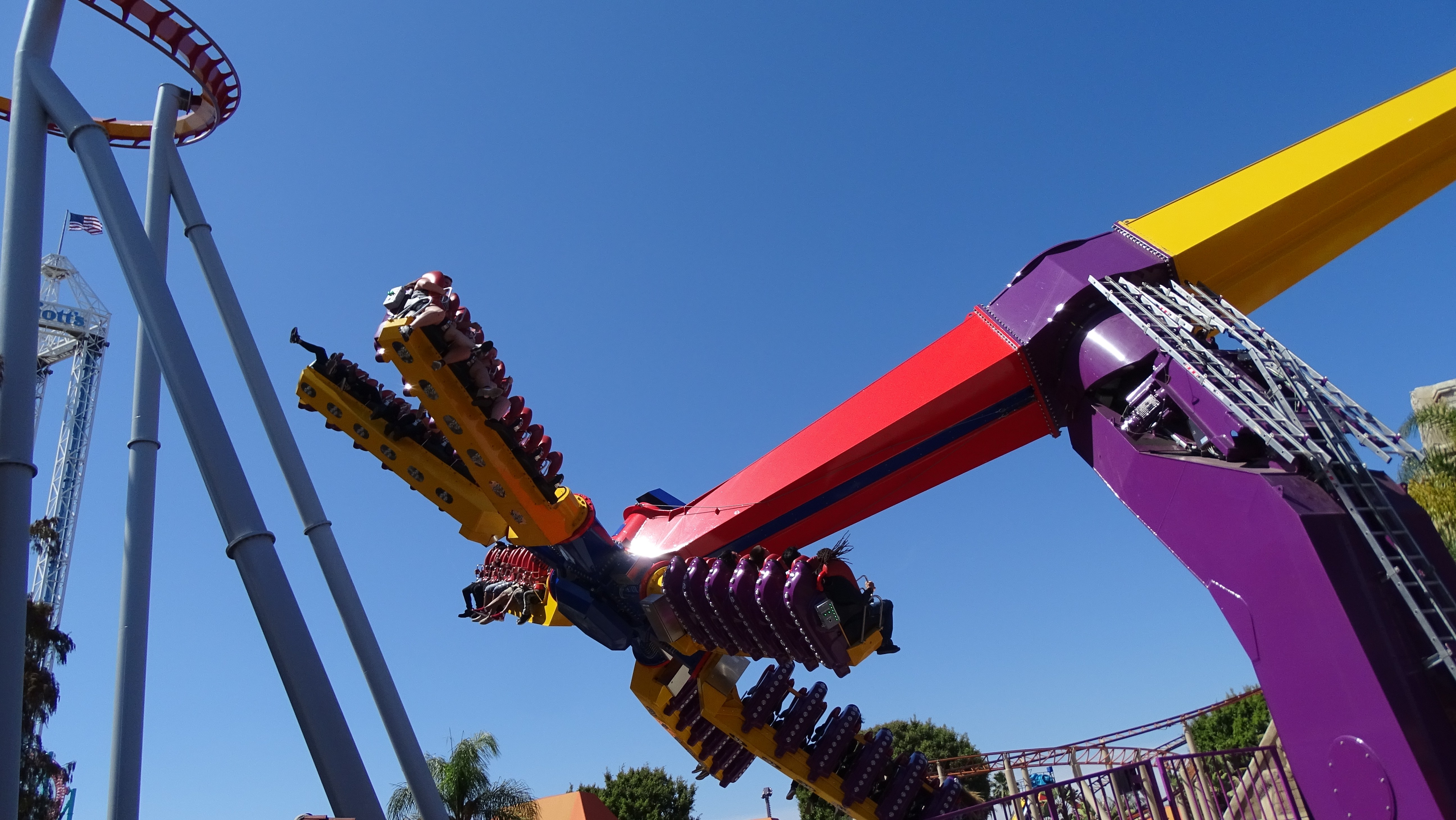 Sol Spin